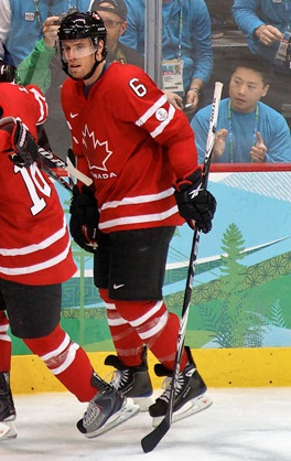 Moments after Dany Heatley scored the goal that would tie the game at 2.